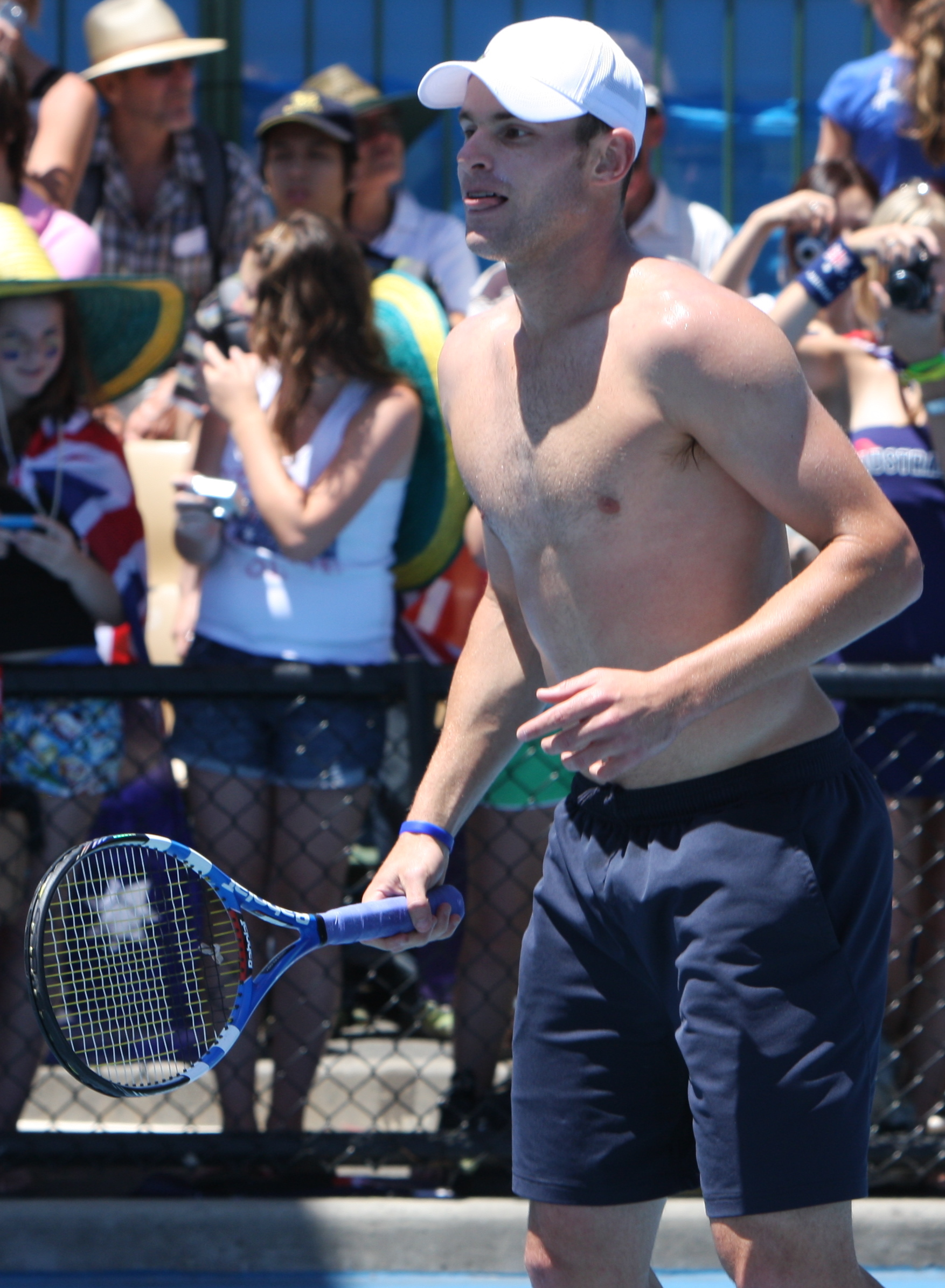 Andy Roddick at 2009 Australian Open, Melbourne, Australia.